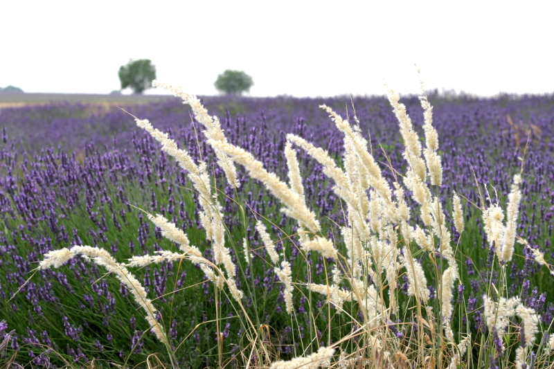 Lavender field with kind of Poceae